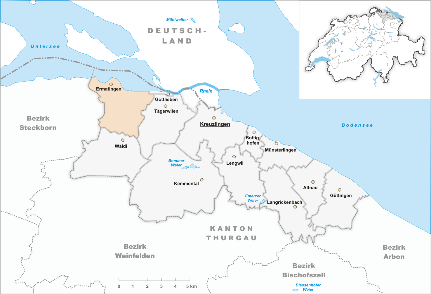 Municipality Ermatingen